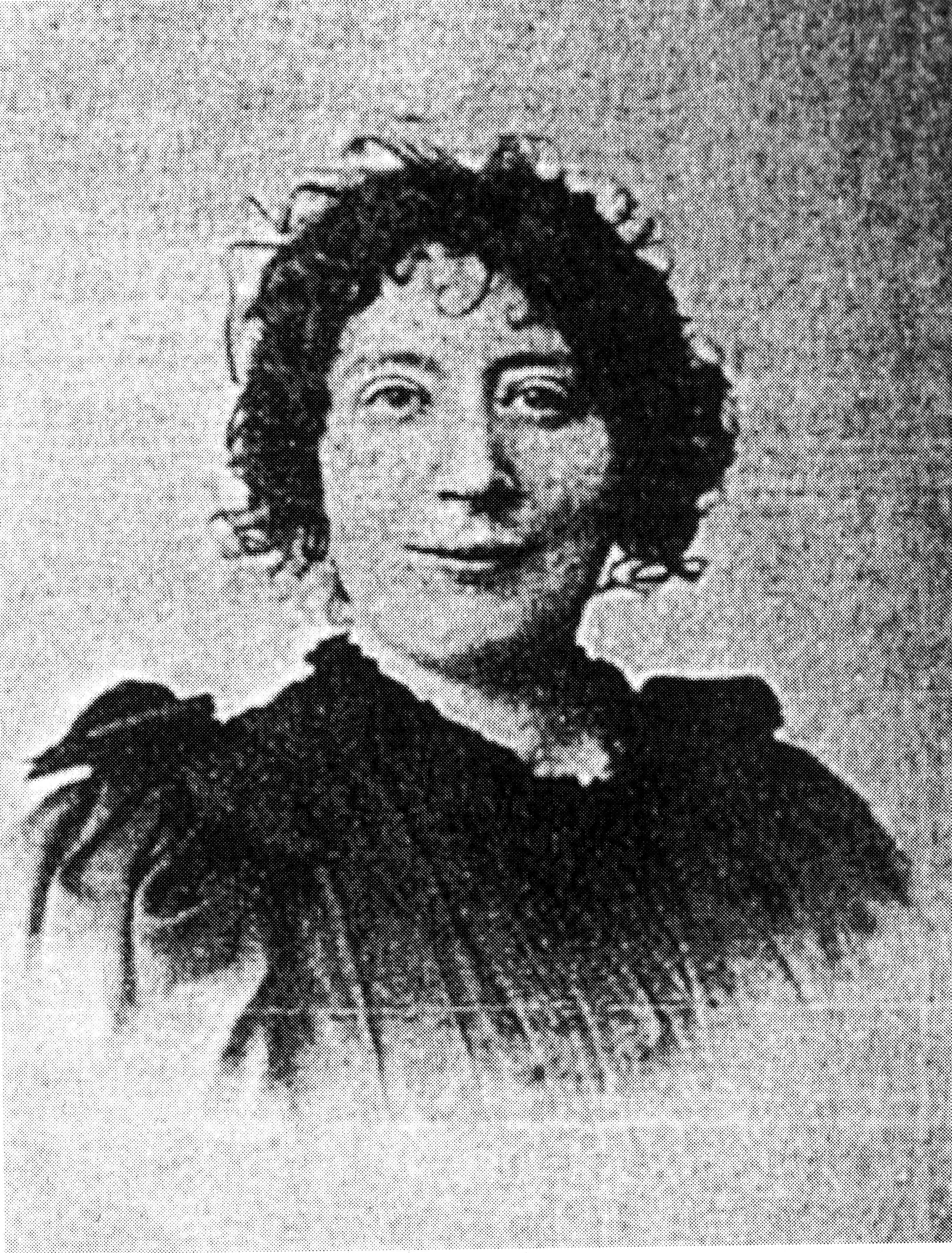 Black and white portrait of French poetess Marie Krysinska